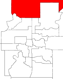 A map showing the edge of the provincial electoral district of Athabasca-Redwater in relation to Edmonton, Alberta provincial ridings.